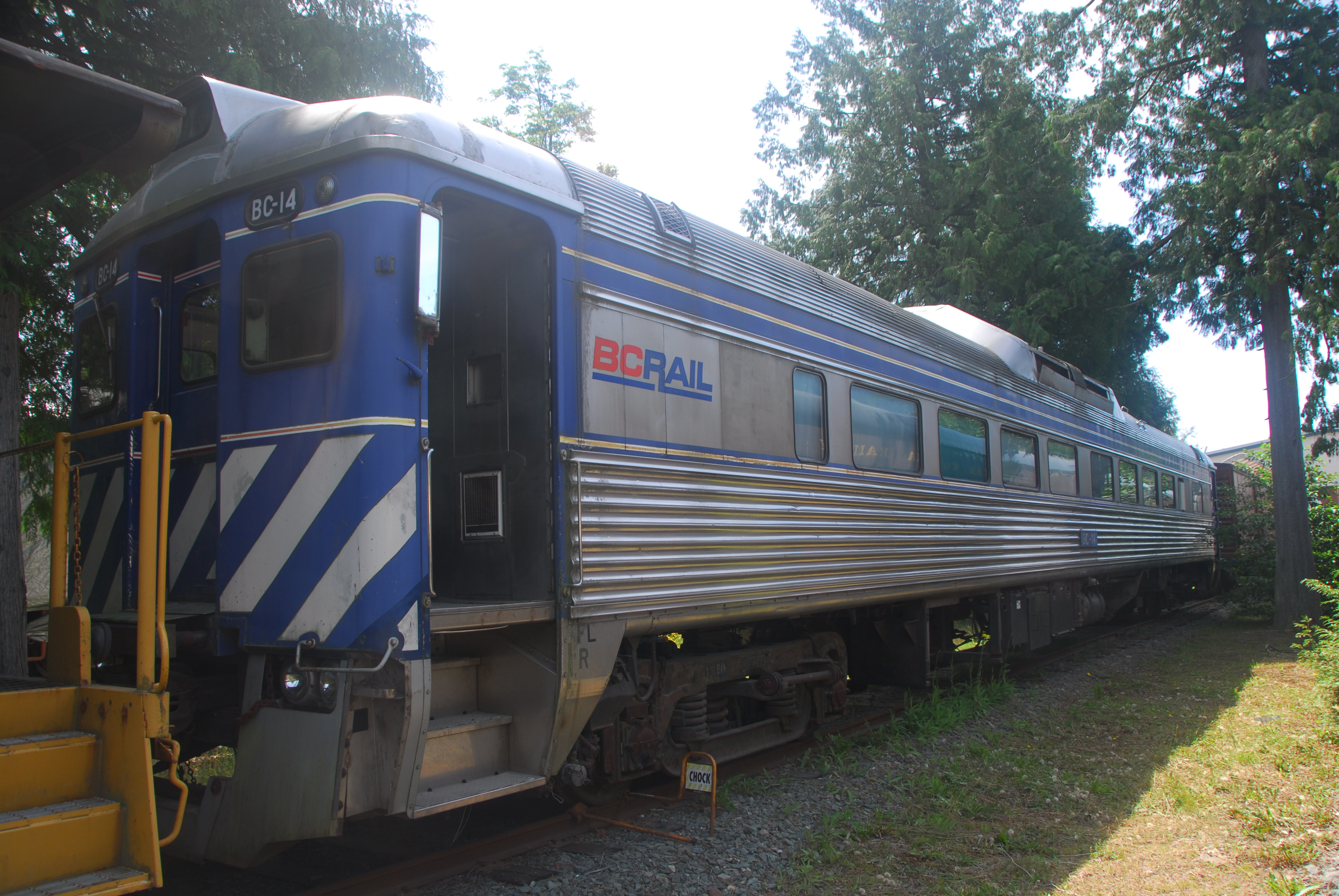 BC Rail RDC railcar at Squamish Railway Museum